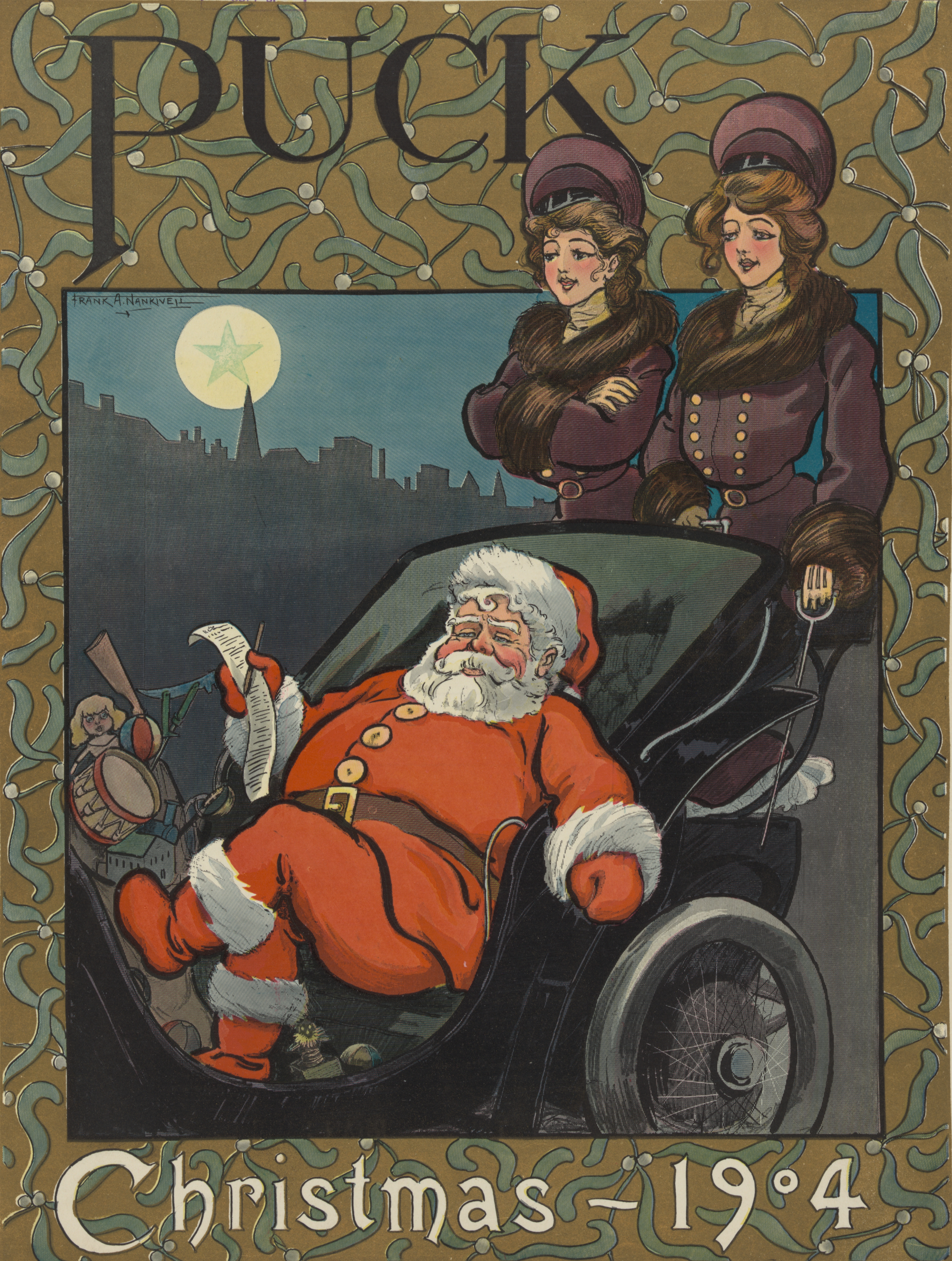 Santa Claus as illustrated in Puck (magazine), v. 56, no. 1449 (1904 December 7), cover.